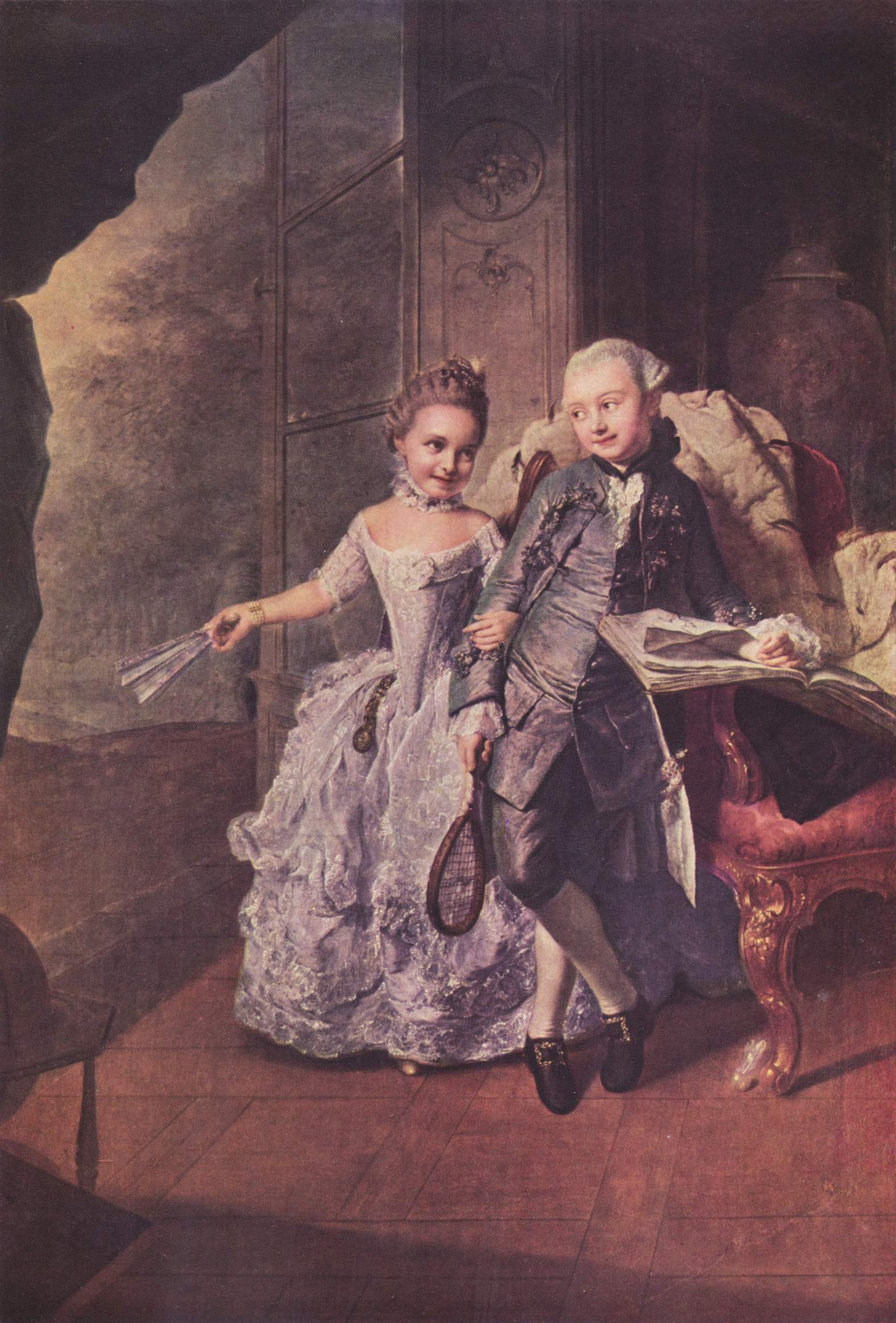 Portrait of the later Frederick Francis I, Grand Duke of Mecklenburg-Schwerin and his sister Sophia Frederica.